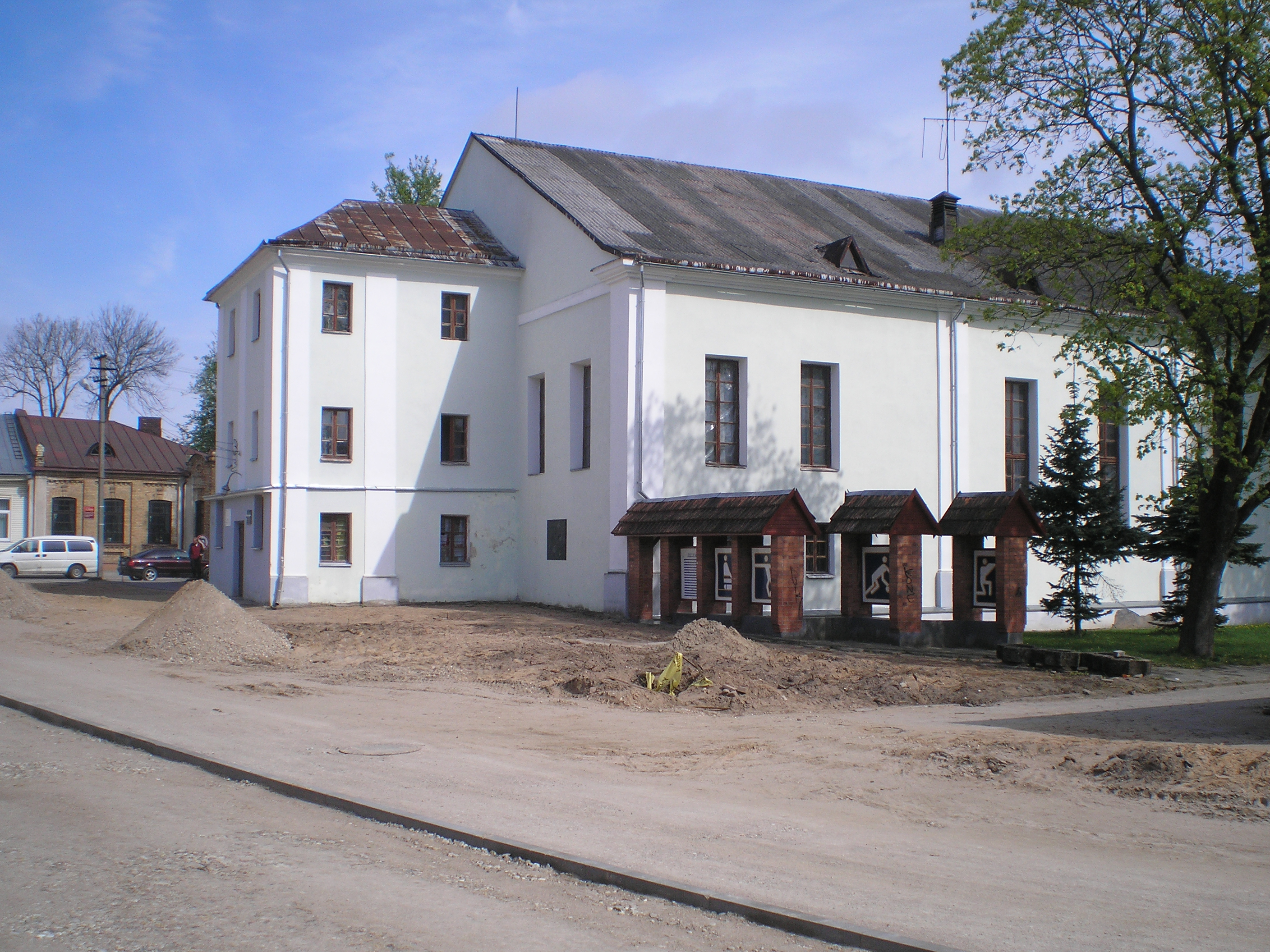 Great Synagogue Ukmerge